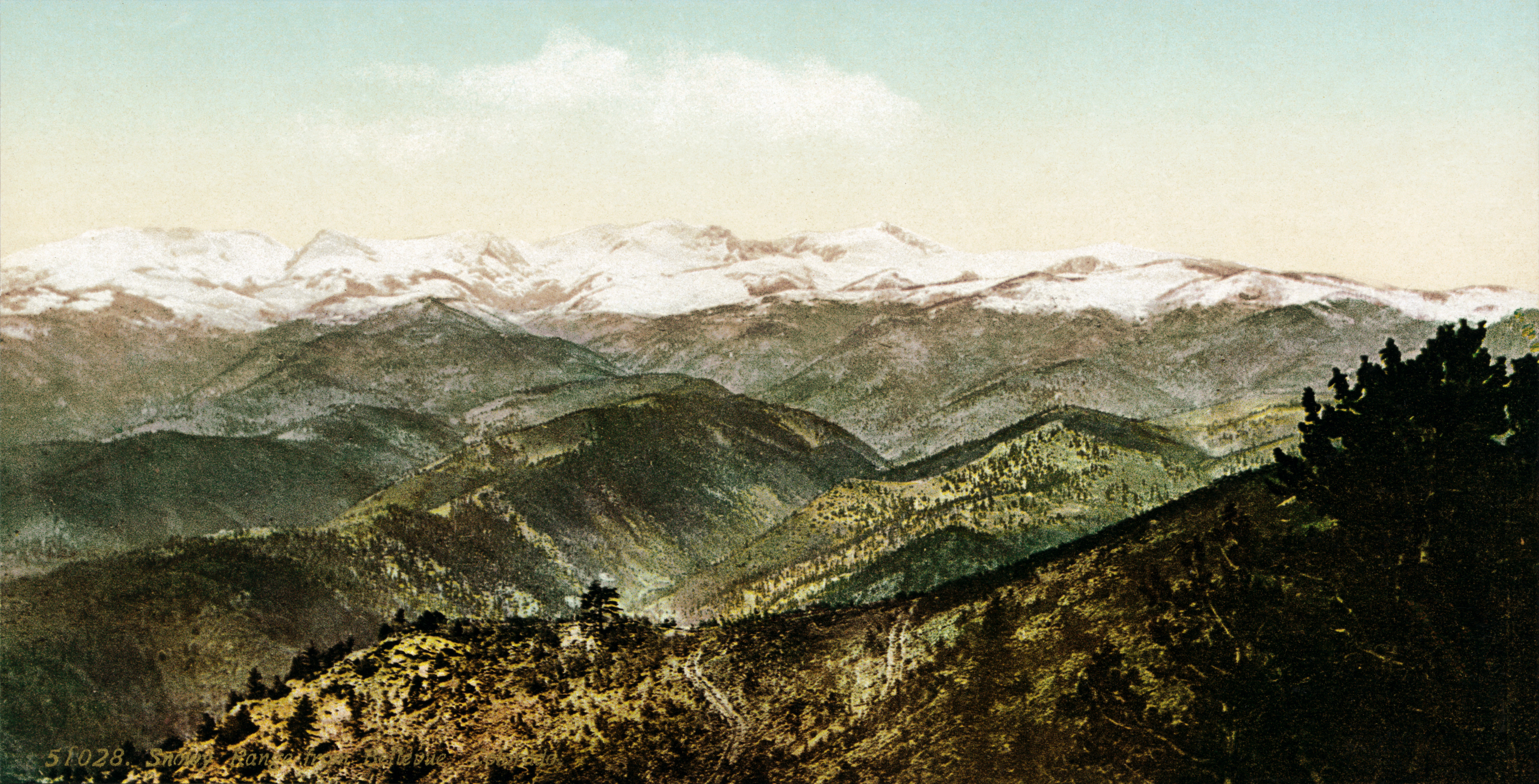 51028. Snowy Range Medicine Bow Mountains from Bellevue, Colorado.